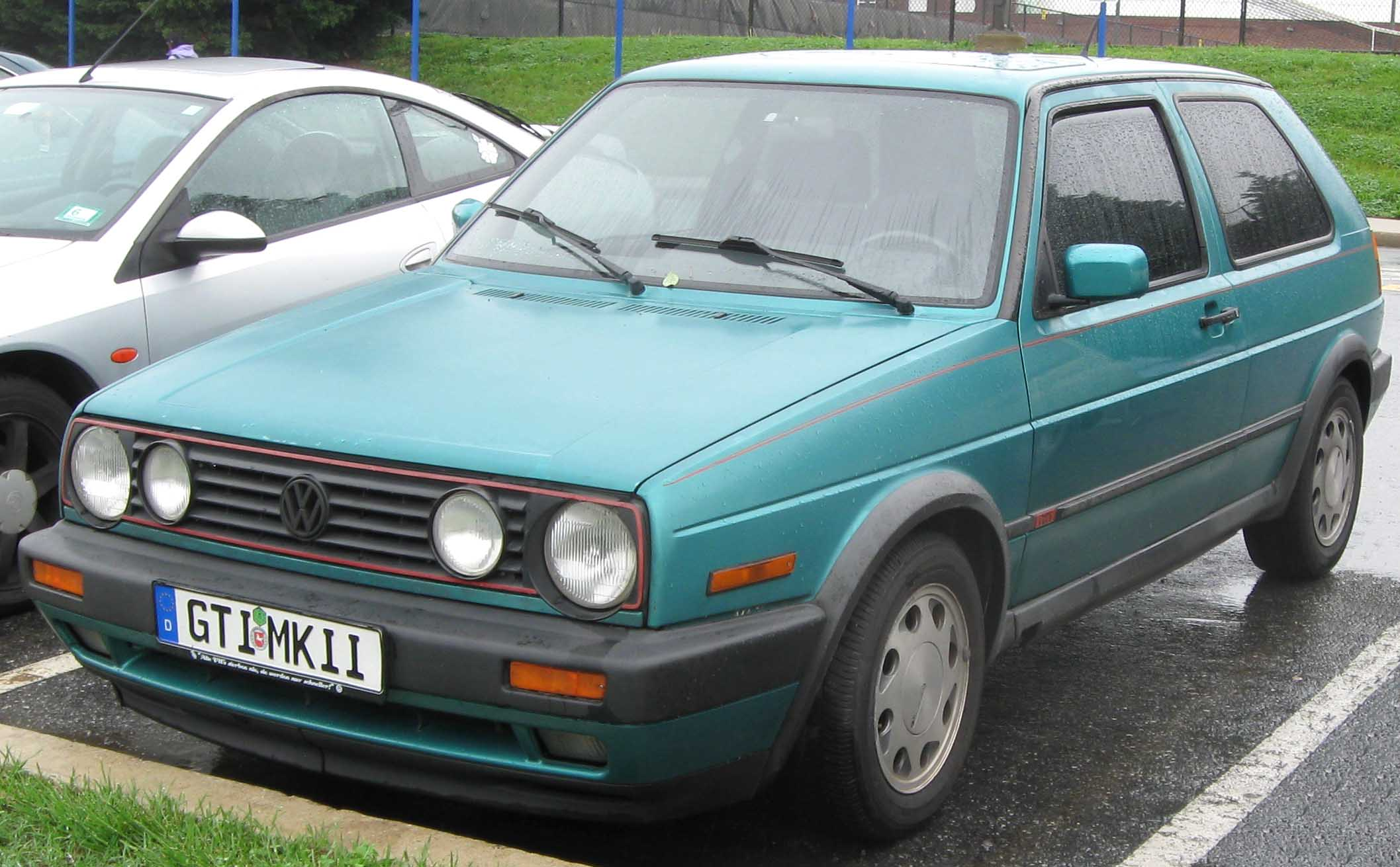 1990-1992 Volkswagen GTI photographed in College Park, Maryland, USA.